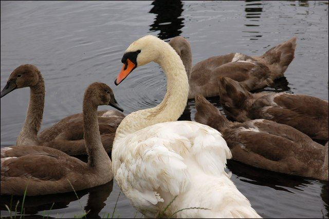 Swan and cygnets near the Newry canal See 500745. This swan and cygnets were in a flooded boggy area beside the towpath.